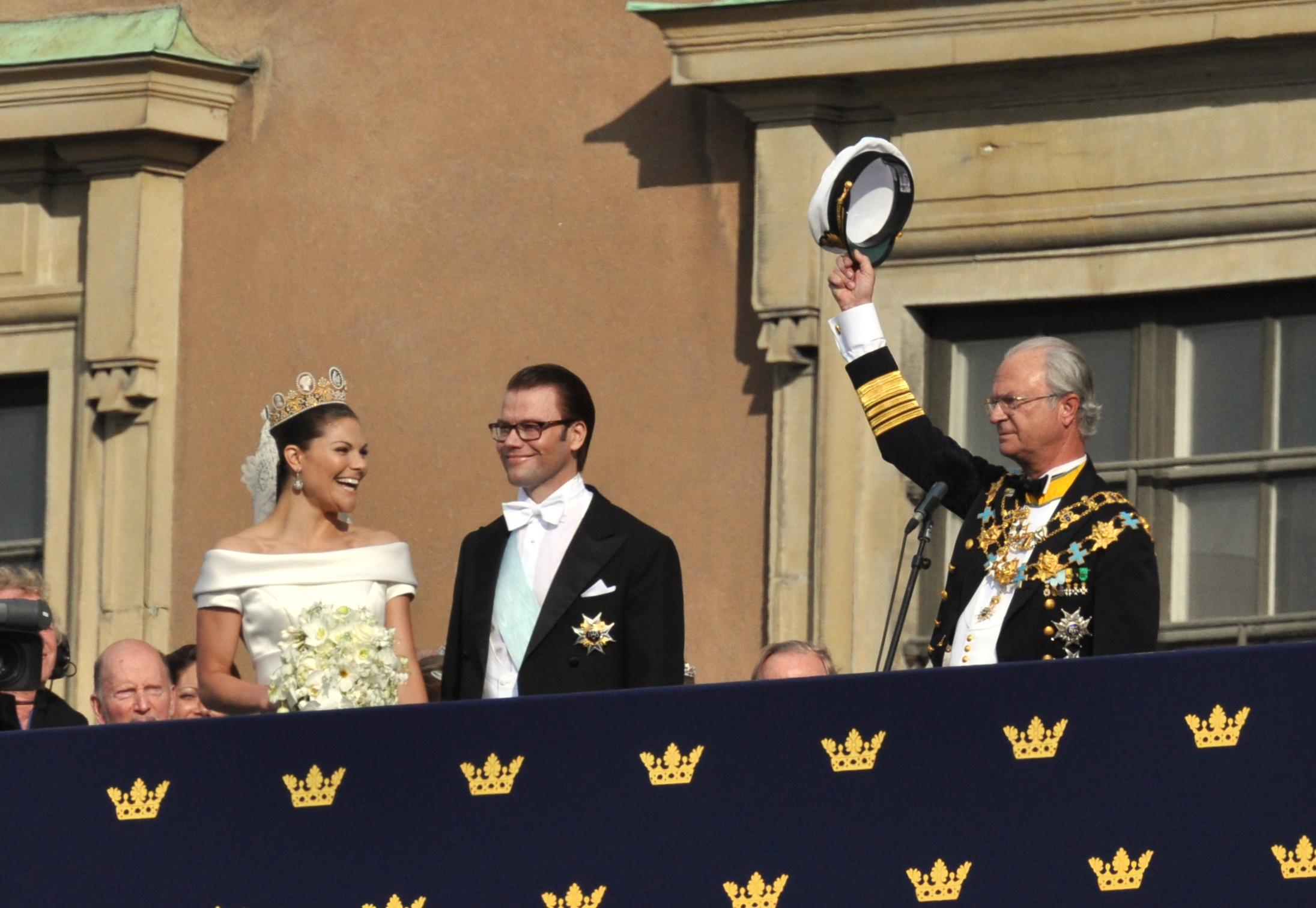 Wedding of Victoria, Crown Princess of Sweden, and Daniel Westling; The Couple at Lejonbacken together with Carl XVI Gustaf of Sweden